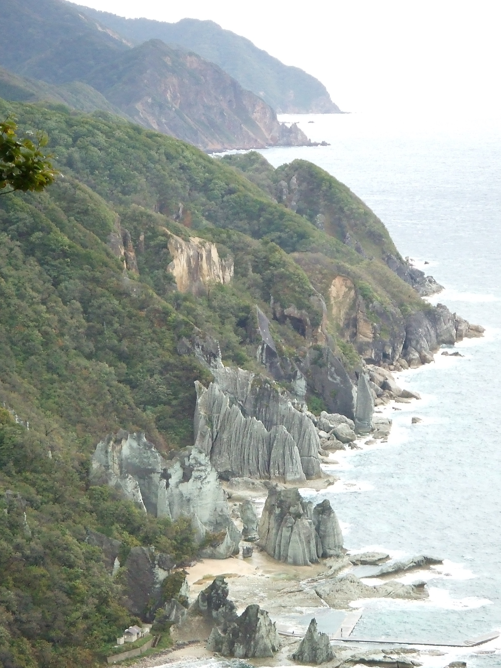 This is a picture of the Hotokegaura cliffs on the Shimokita-hanto peninsula in Aomori Prefecture, Japan. I took this photo with a digital camera on 8th October 2006.